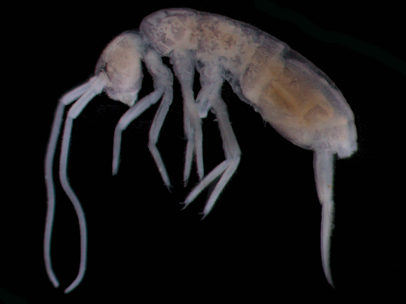 Plutomurus ortobalaganensis Jordana and Baquero, 2012, species of Collembola (springtail) found in the Krubera-Voronya cave (Abkhazia), at -1980m (Kvitochka sump), by Sofía Reboleira and Alberto Sendra (part of CaveX Team), 2010.